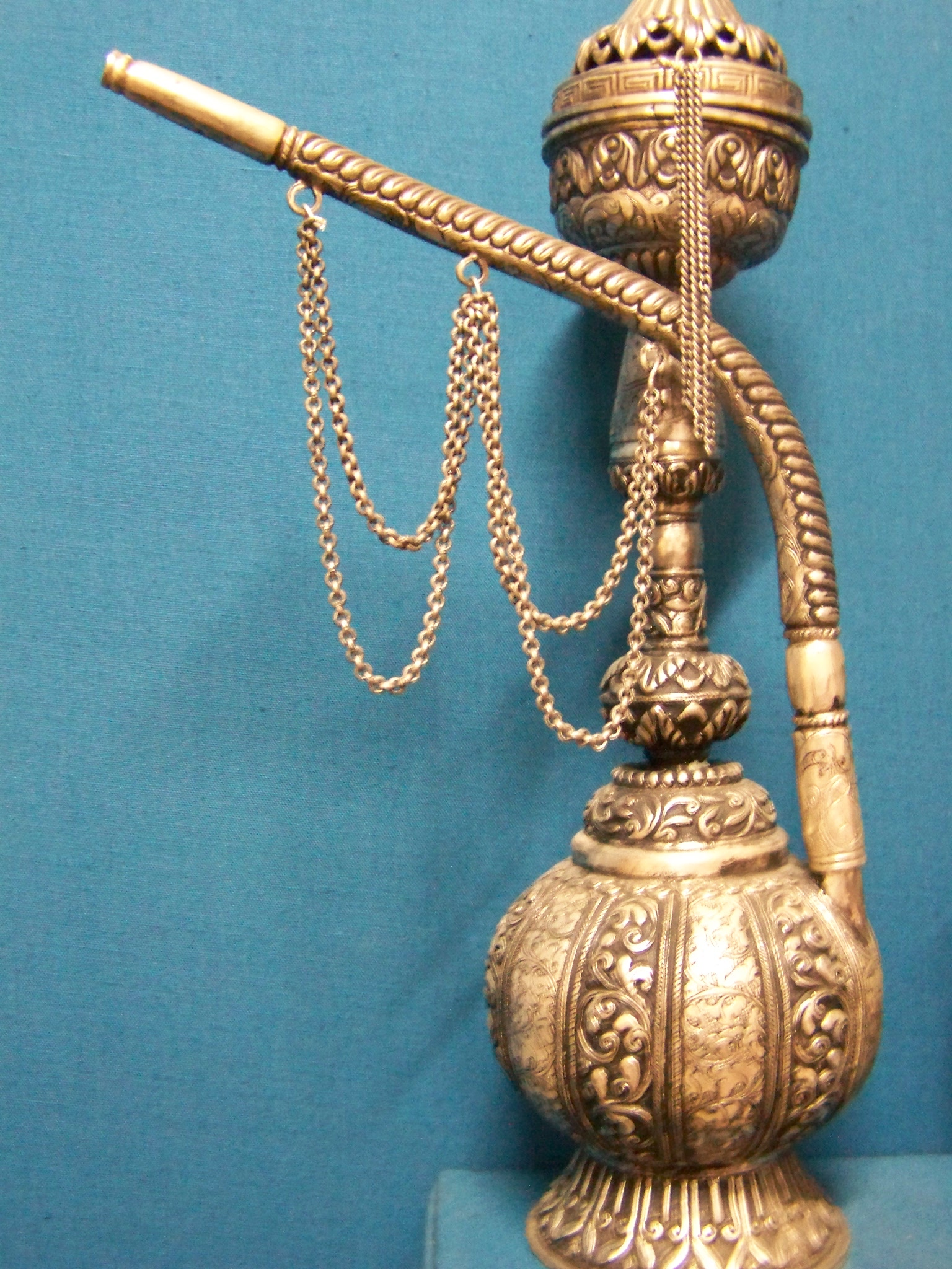 Indian Hukka, Shimla, himachal Pradesh